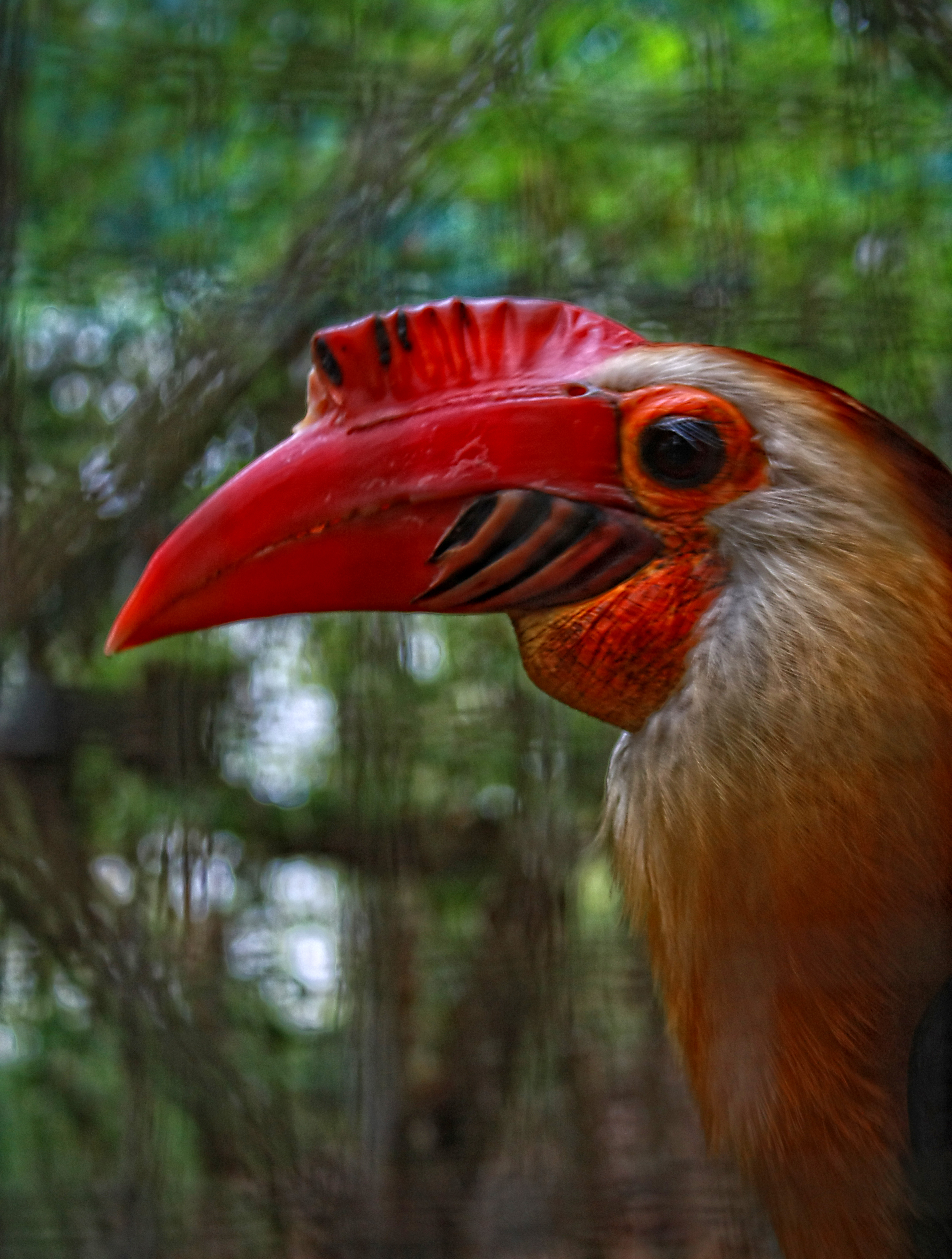 A male Writhed Hornbill in Cagayan de Oro City, Mindanao, Philippines.